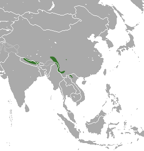 Long-tailed Brown-toothed Shrew (Episoriculus leucops) range